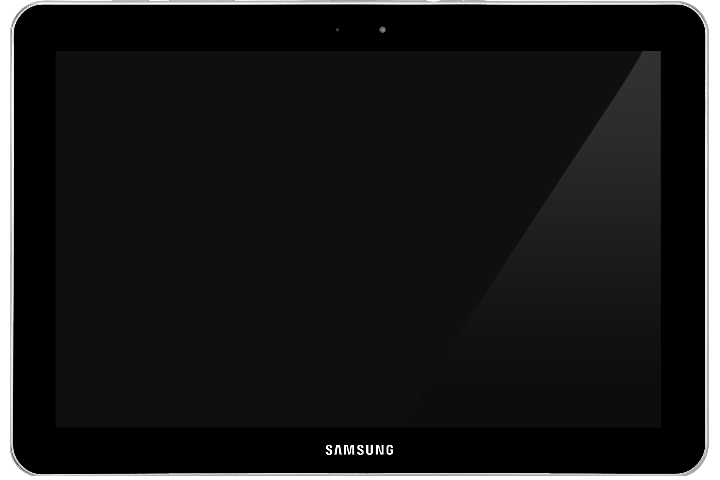 Samsung Galaxy Tab 10.1 render